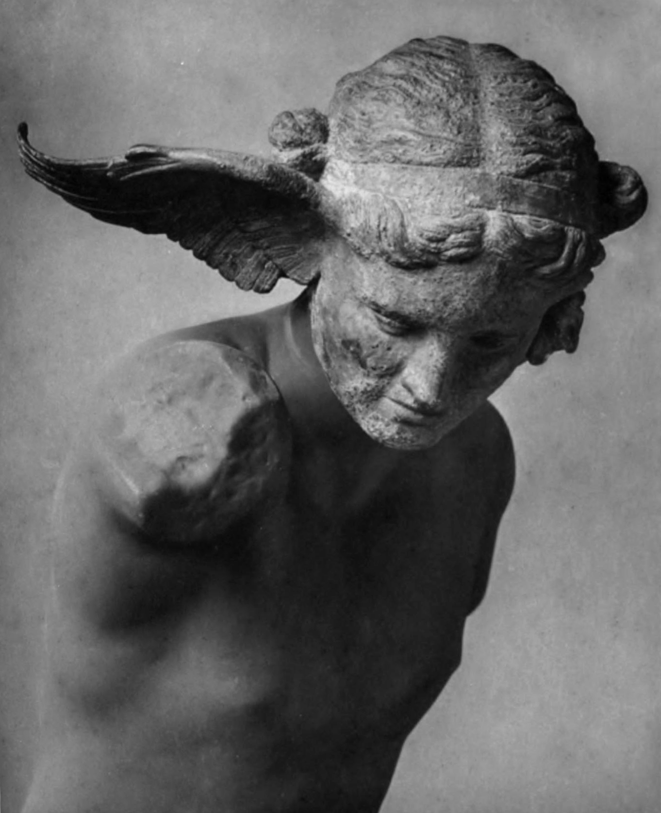 Statue of Hypnos